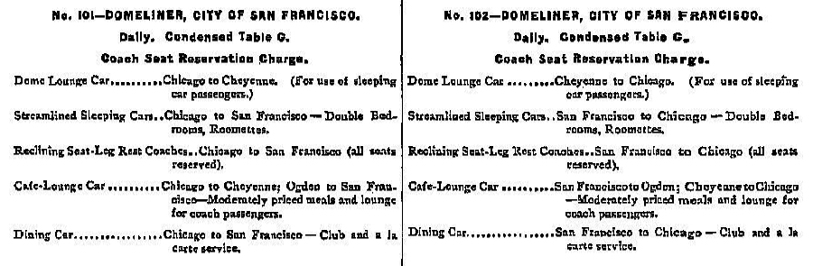 Consists of the Streamliner City of San Francisco TR 101-102 (1968)